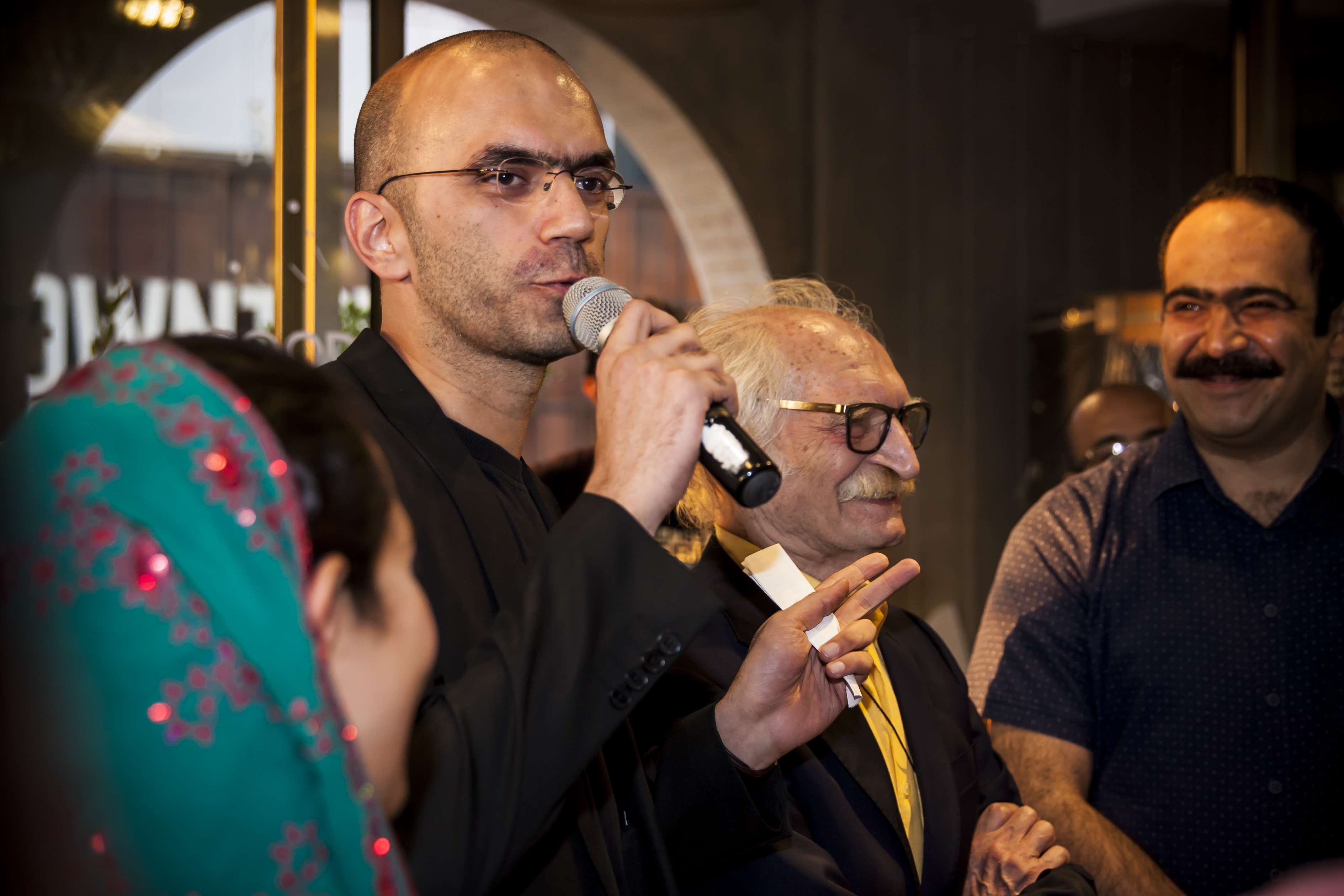 iGhe3, iGhese city - 2019